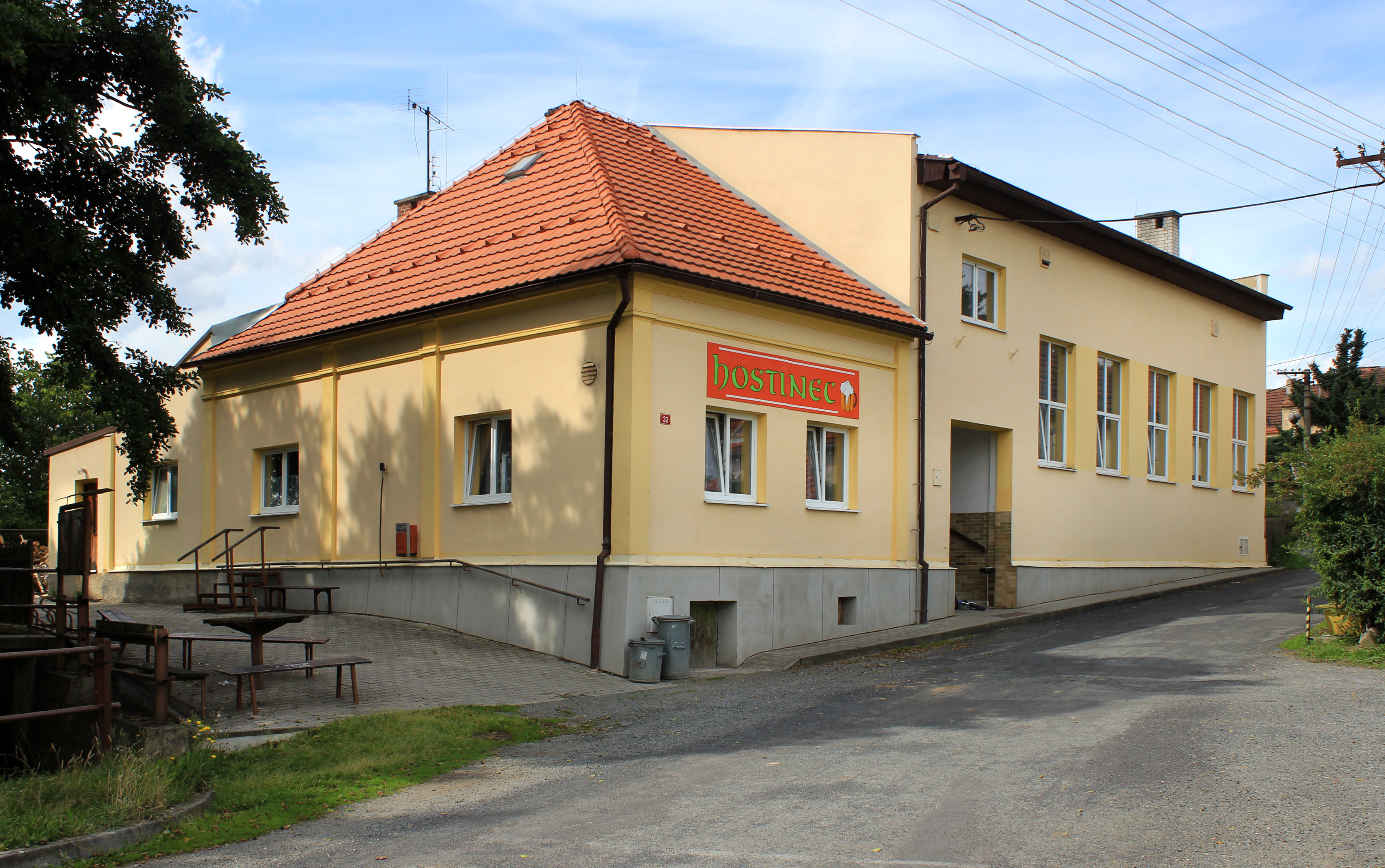 Restaurant in Neuměř, Czech Republic.